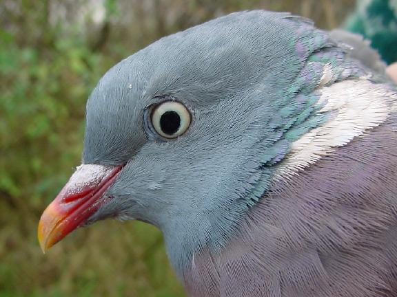 Woodpigeon, Schiermonnikoog, Netherlands